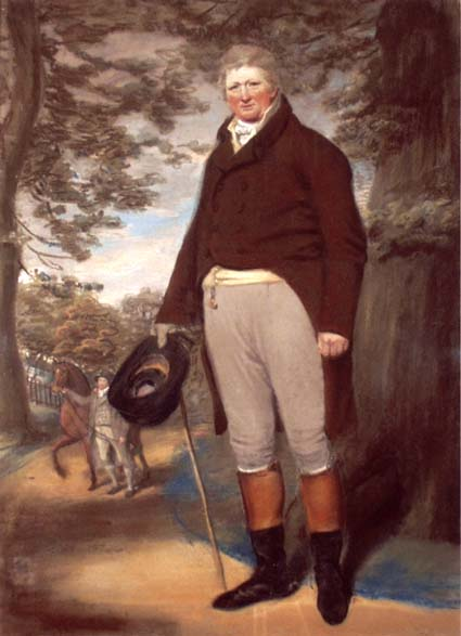 Eleazer Pickwick, mayor and inn owner. Painting from Victoria Gallery in Bath.